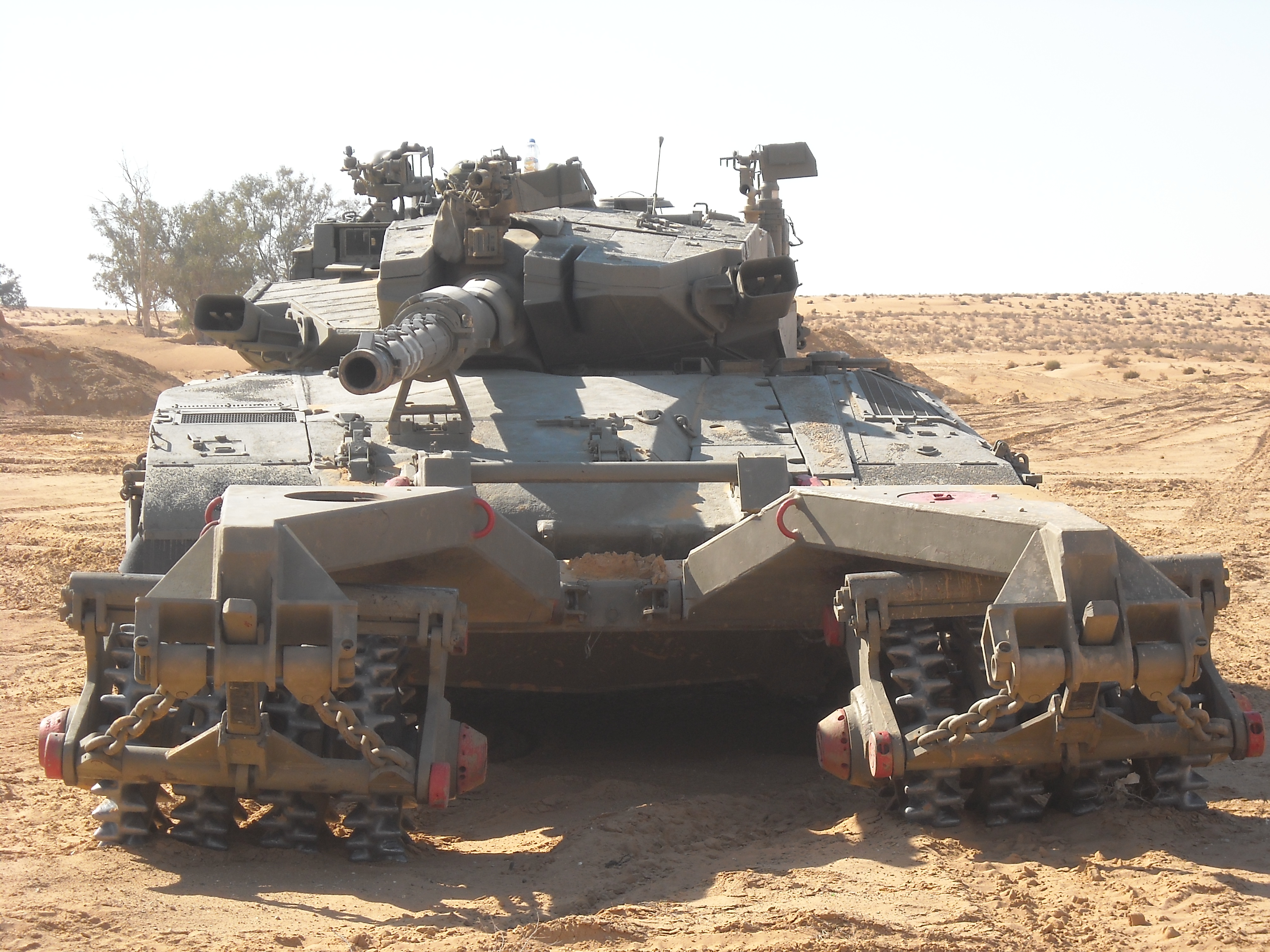 a merkava mk3 with Mine roller